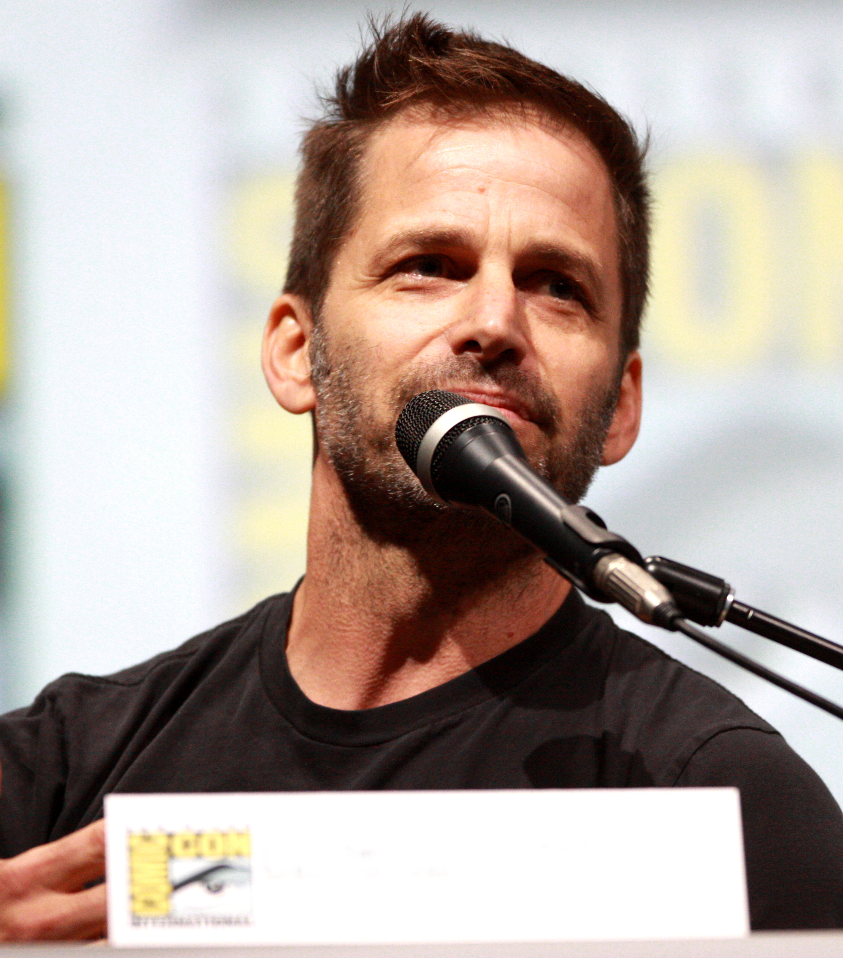 Zack Snyder at the 2013 San Diego Comic Con International in San Diego, California.